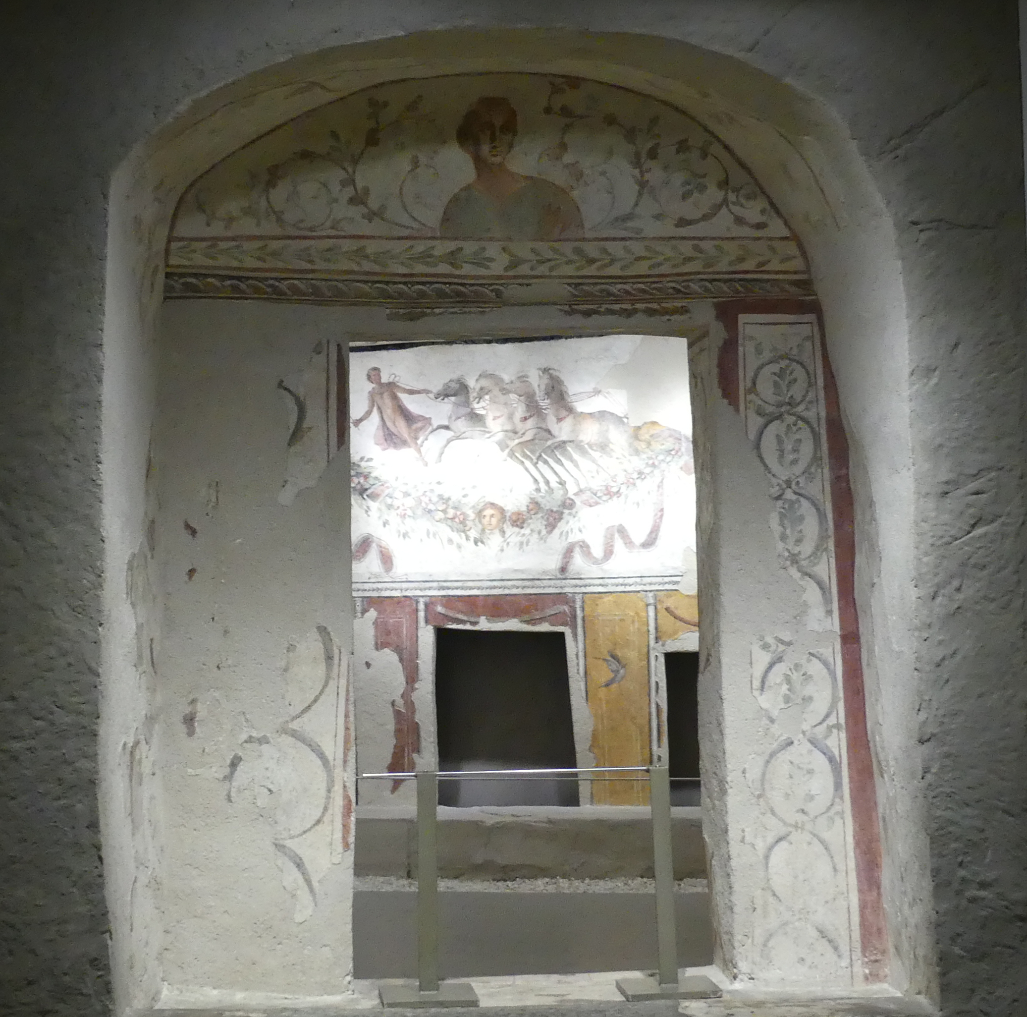 "This richly decorated tomb with frescoes was accidentally dis- covered in 1937 in Burj el-Shemali, about 3 km from Tyre, in an ancient necropolis area. It is a remarkable example of funerary art from the Roman Period. In 1939, the archaeologist Maurice Dunand undertook excavations inside the tomb. At the end of the same year, the architect Henry Pearson dismantled the frescoes from the original walls with their mortar and restored them in the basement of the National Museum of Beirut. The tomb was used during the 2nd century A.D."